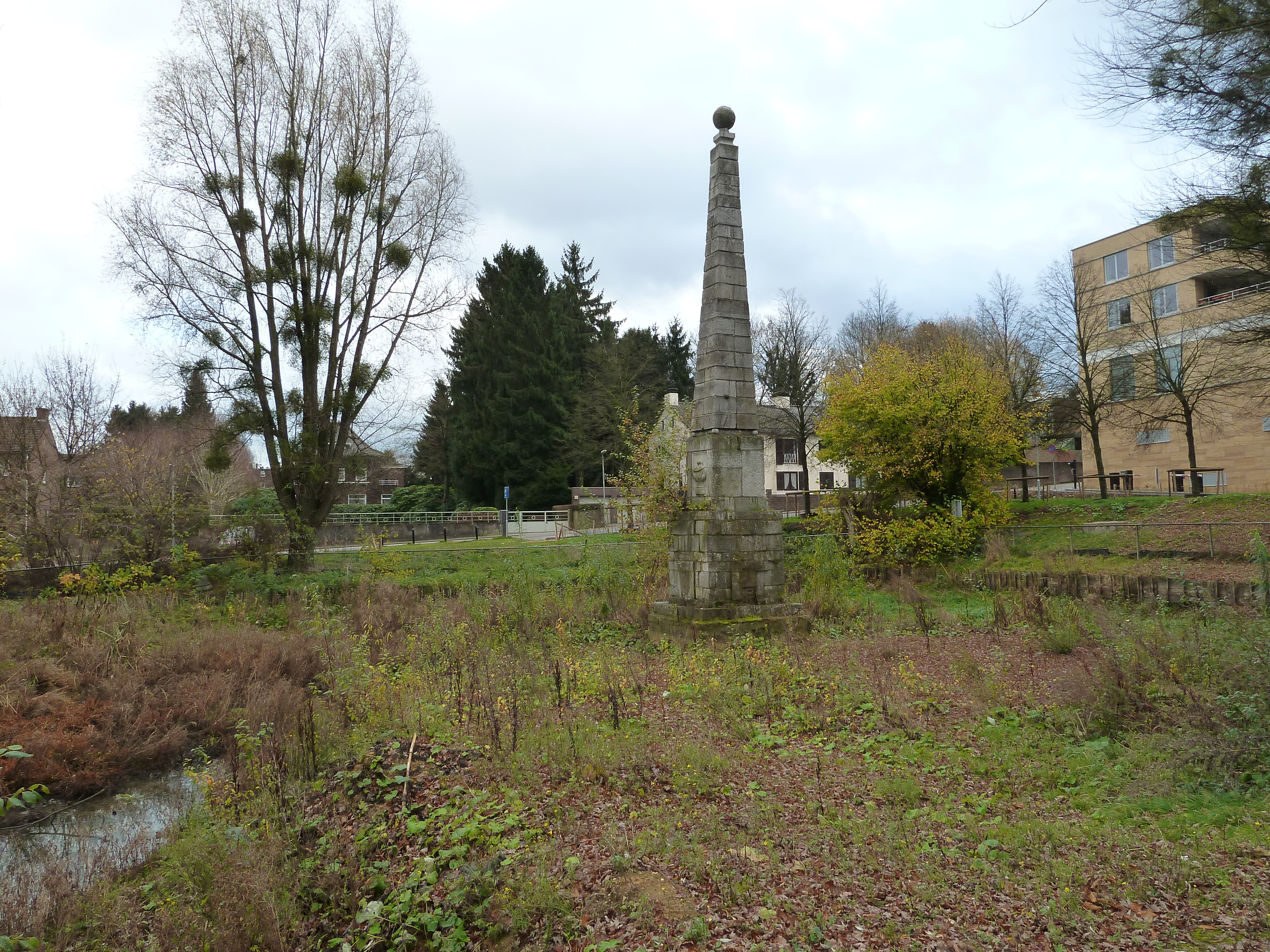 Obelisk, Vaals, Limburg, the Netherlands